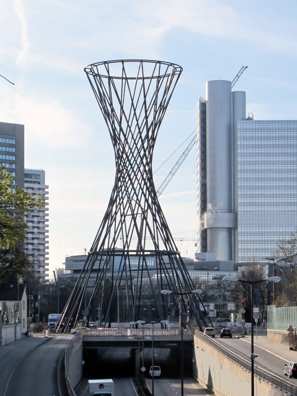 Munich,suburb Bogenhausen, Sculpture Mae West at Place "Effner Platz"